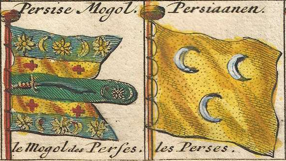 Two maritime ensigns of Persia in 1711 Petrus Schenk's flag chart